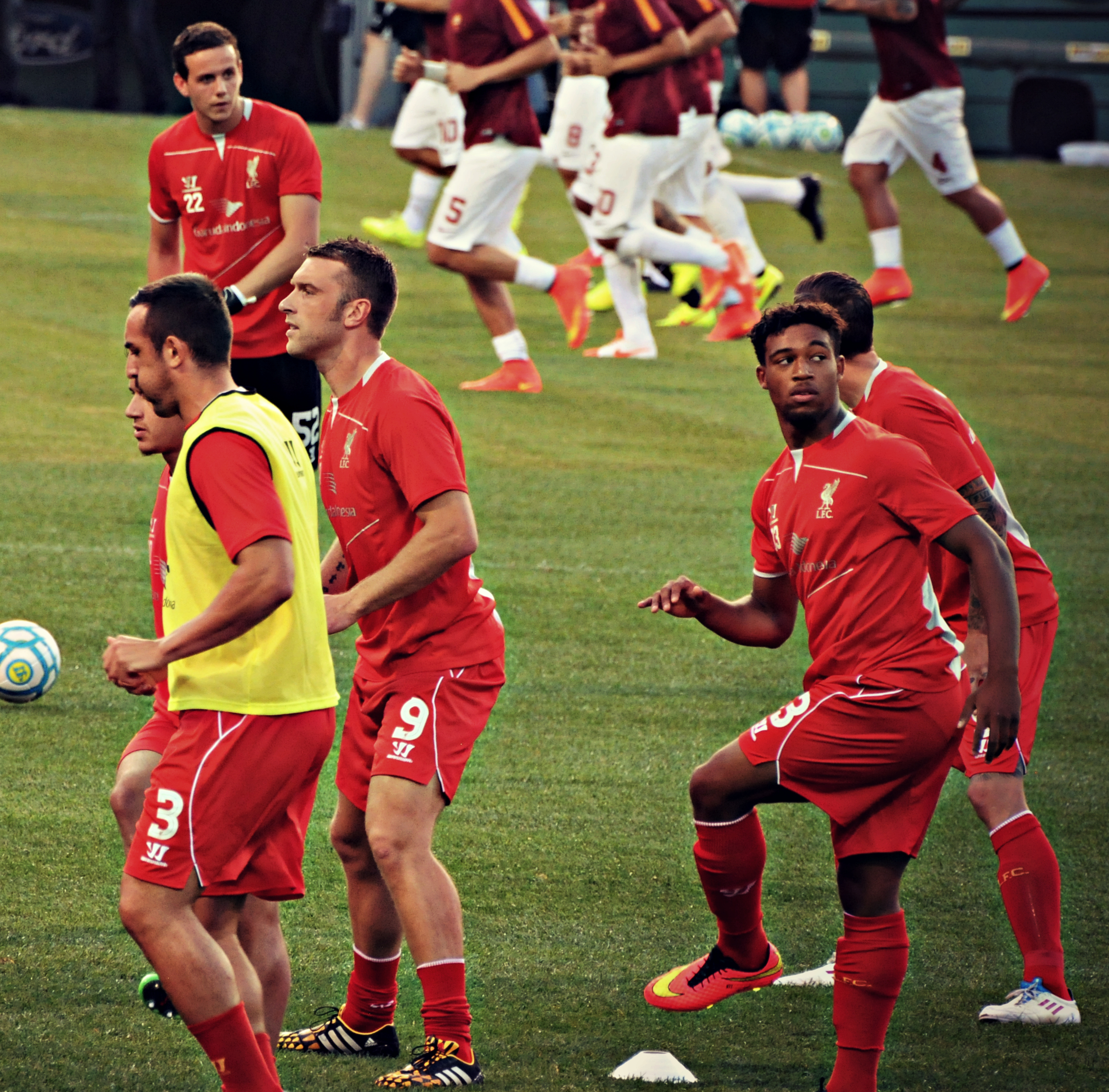 Pre-game warm-ups.